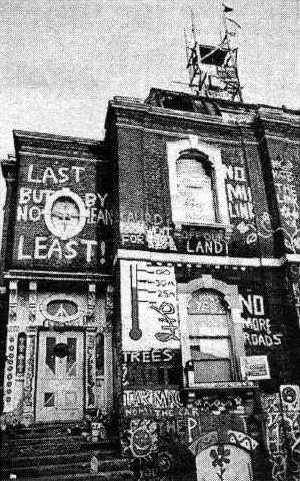 Munstonia, the last house on Fillebrook Road, in 1995, during the M11 Link Road protests. Formerly 135 Fillebrook Road, Leytonstone, London E11. The house was situated slightly northeast of (and across the road from) the T-junction of King's Road and Fillebrook Road. (Now the junction of King's Road and Kingswood Road). It was ultimately demolished to make way for the A12 road (the M11 link road).